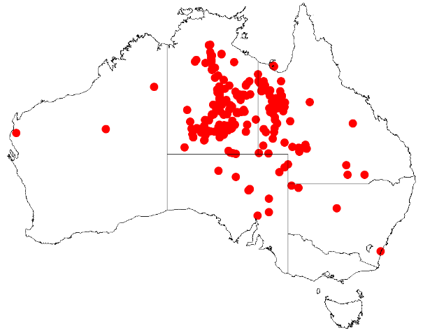 Scaevola ovalifolia occurrence data downloaded from Australasian Virtual Herbarium on 12 May 2019